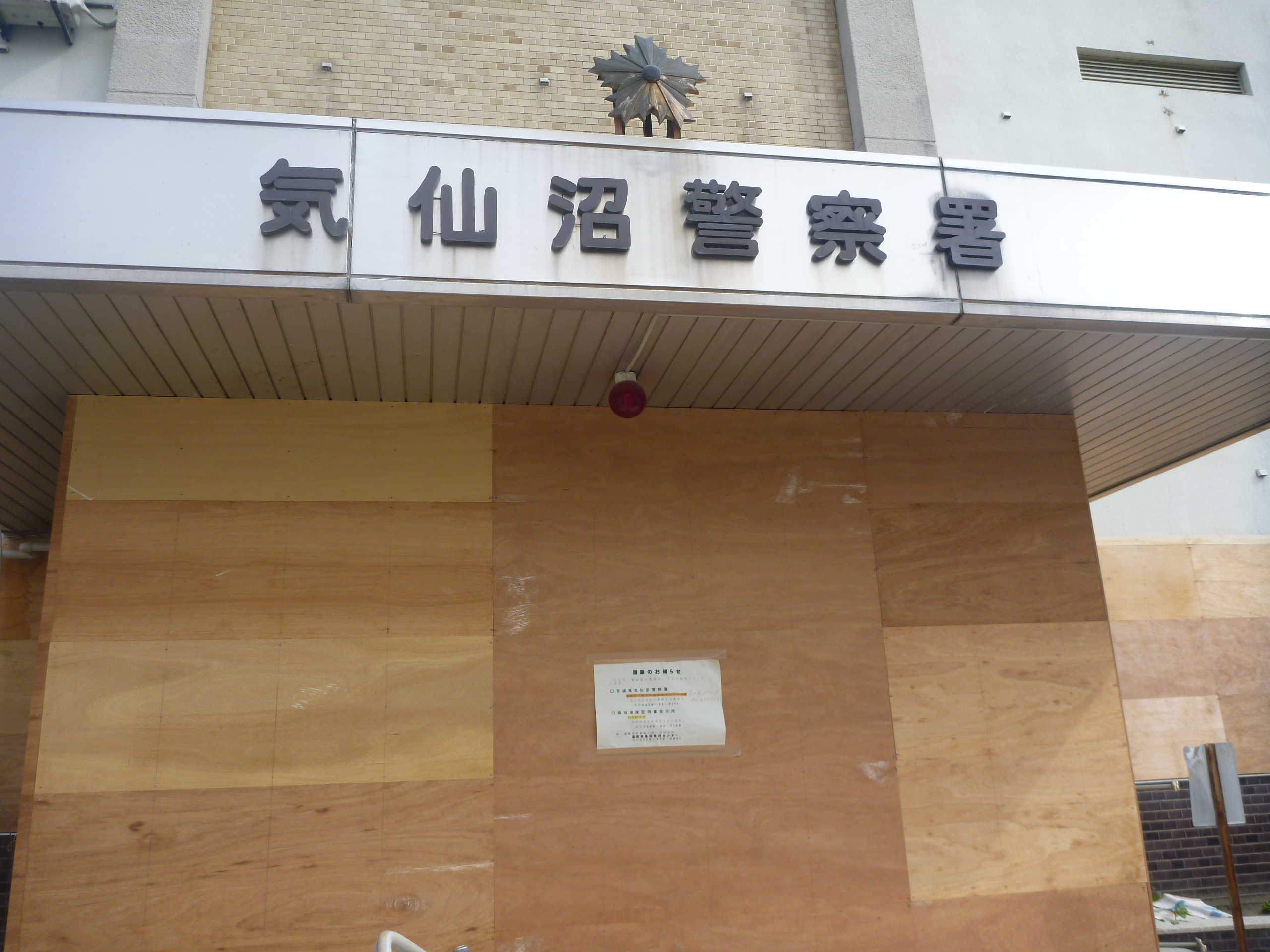 Kesennuma Police Station in Nangō, Kesennuma, Miyagi, Japan, in June 2011.